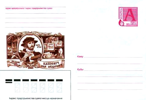 BelPost's envelope, 2001. Kapiyevich Ilya Fedorovich 1651-1714, portrait. Artist Mikola Ryzhy. Circulation is 207100 copies.